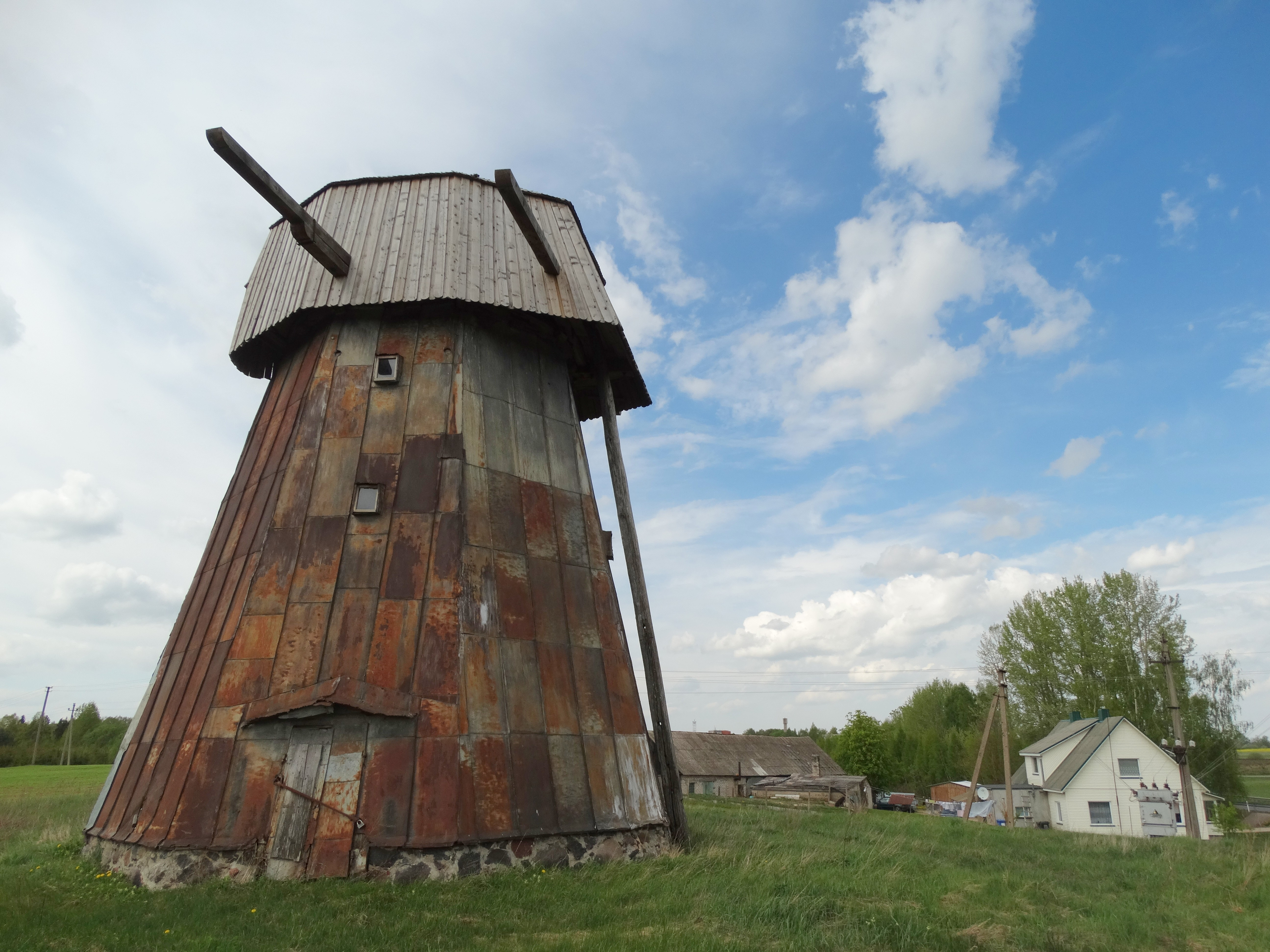 Baltoji, windmill, Radviliškis district, Lithuania